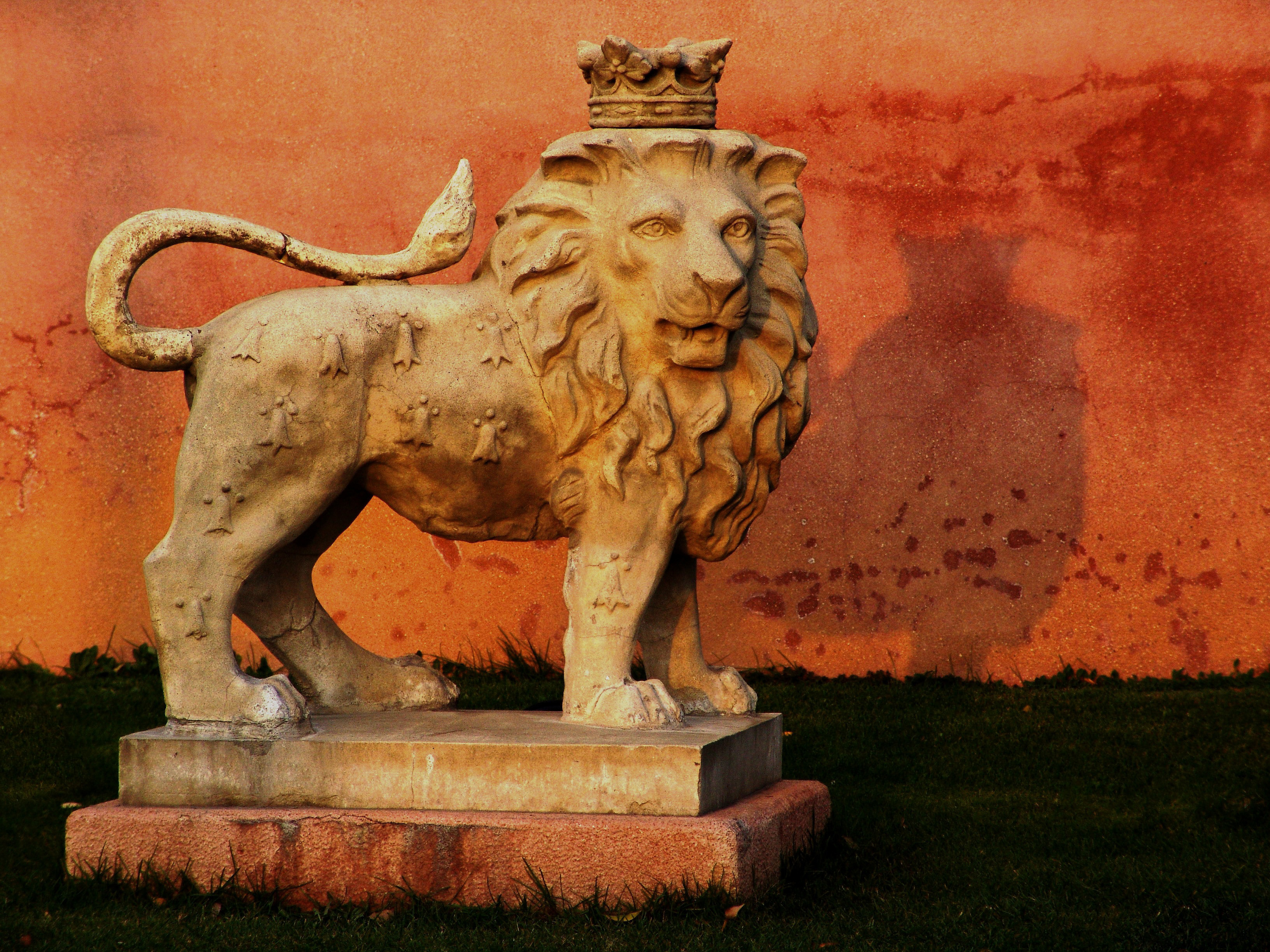 A three-dimensional heraldic lion (with body covered with ermine designs, and wearing a coronet of nobility)